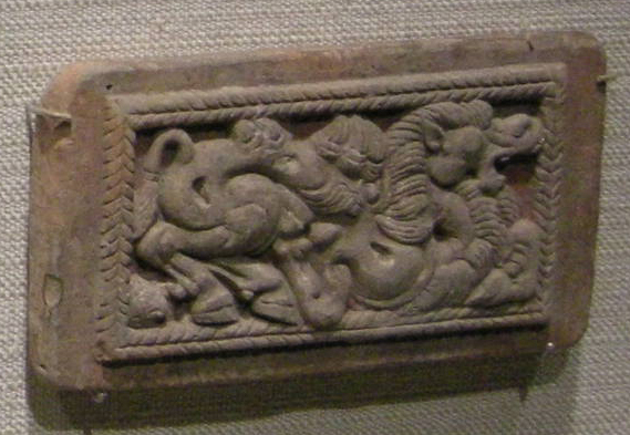 Met, china, casting model for a belt plaque, north china, 2-1st century BC clay